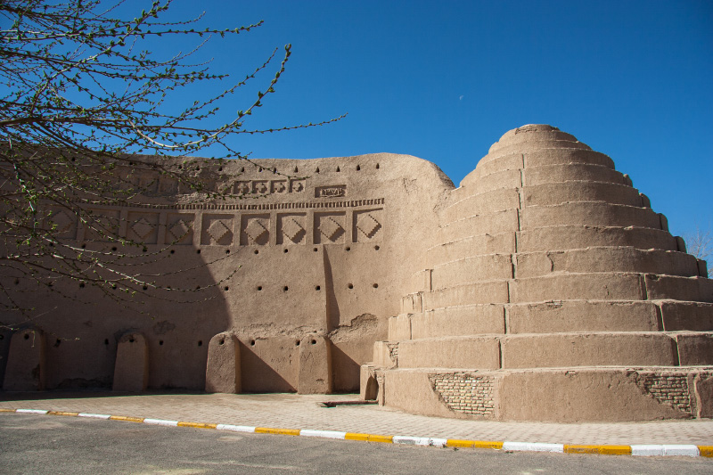 یخدان های سنتی سیرجان عکس: امیررضا توسلی